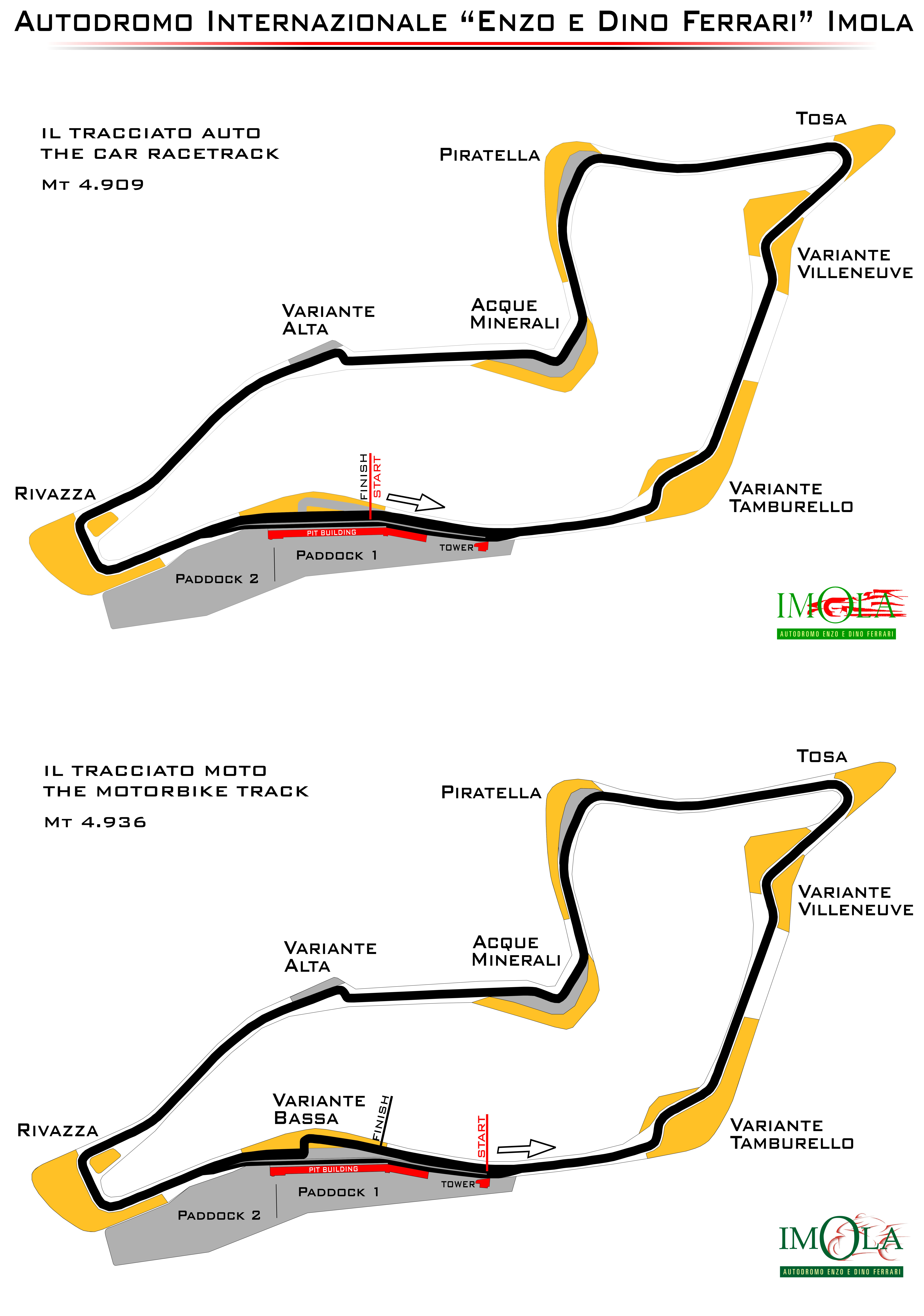 Imola Race Track